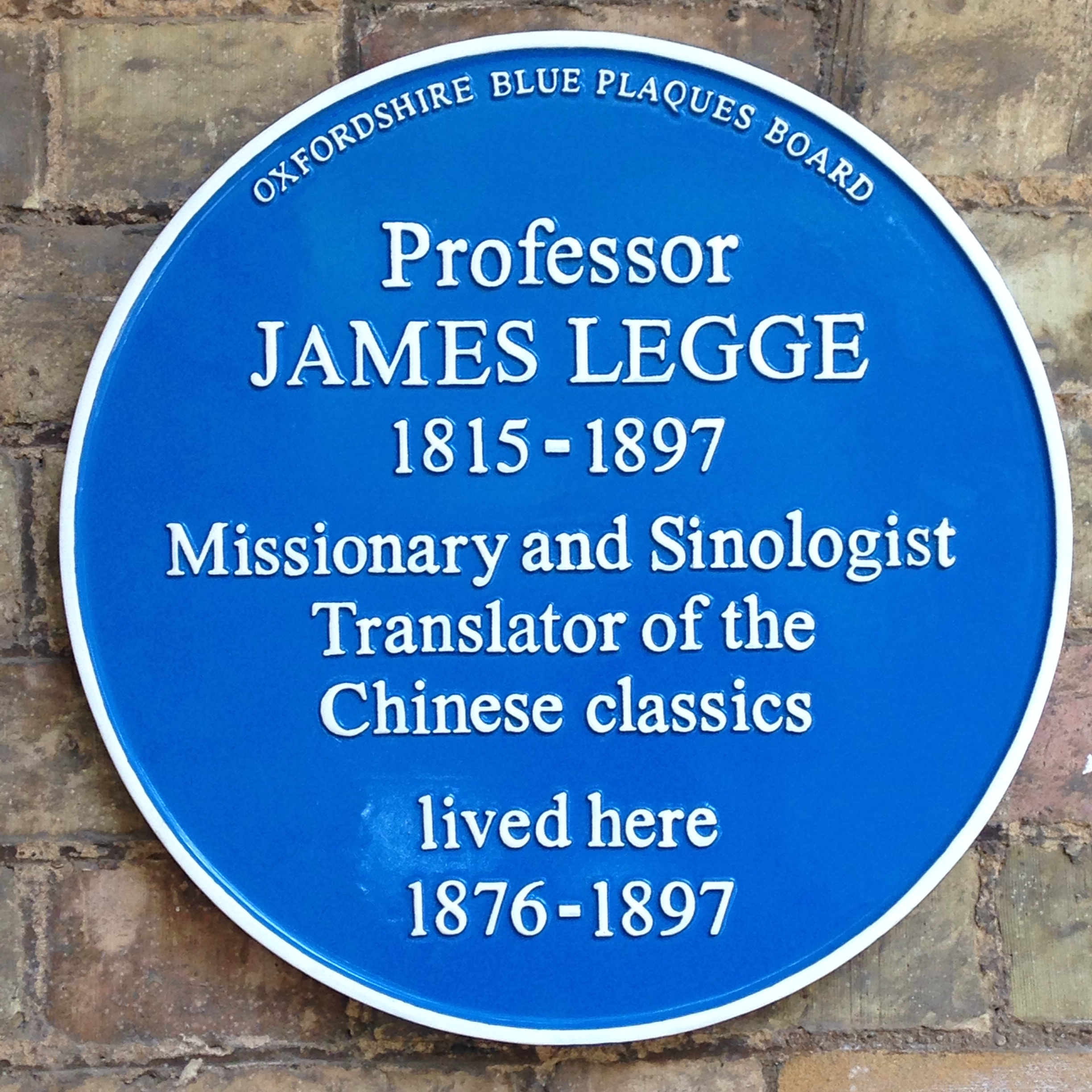 Professor James Legge, 1815-1897, missionary and Sinologist, translator of the Chinese classics, lived here 1876-1897 3 Keble Road, Oxford OX1 3QG Plaque erected 16 May 2018 by the Oxfordshire Blue Plaques Board (This image represents an Open Plaques entry)